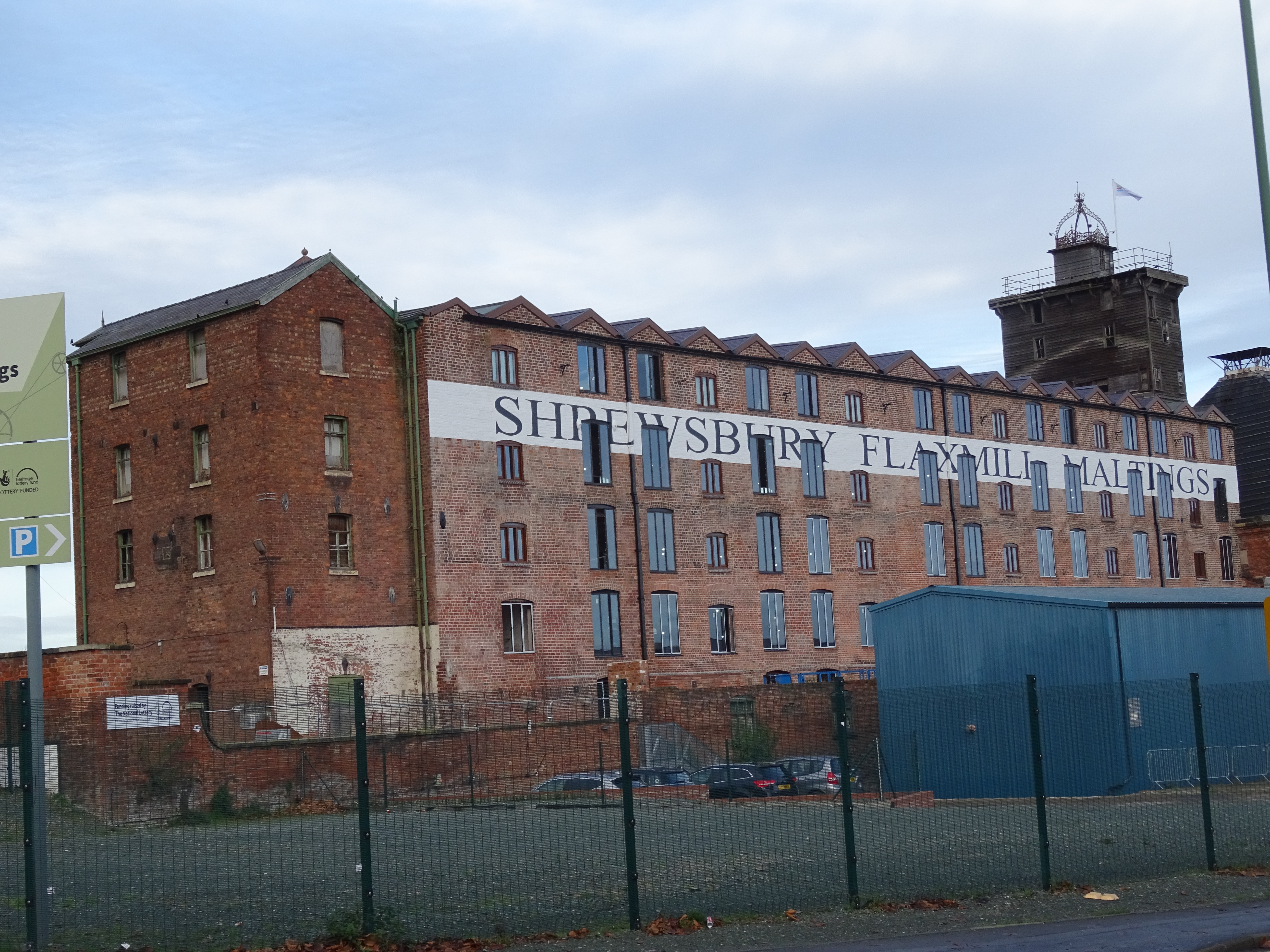 East side of the Main Mill, facing St Michael's Street, at Ditherington Flax Mill in December 2018 with the scaffolding removed for the first time in about twelve years.